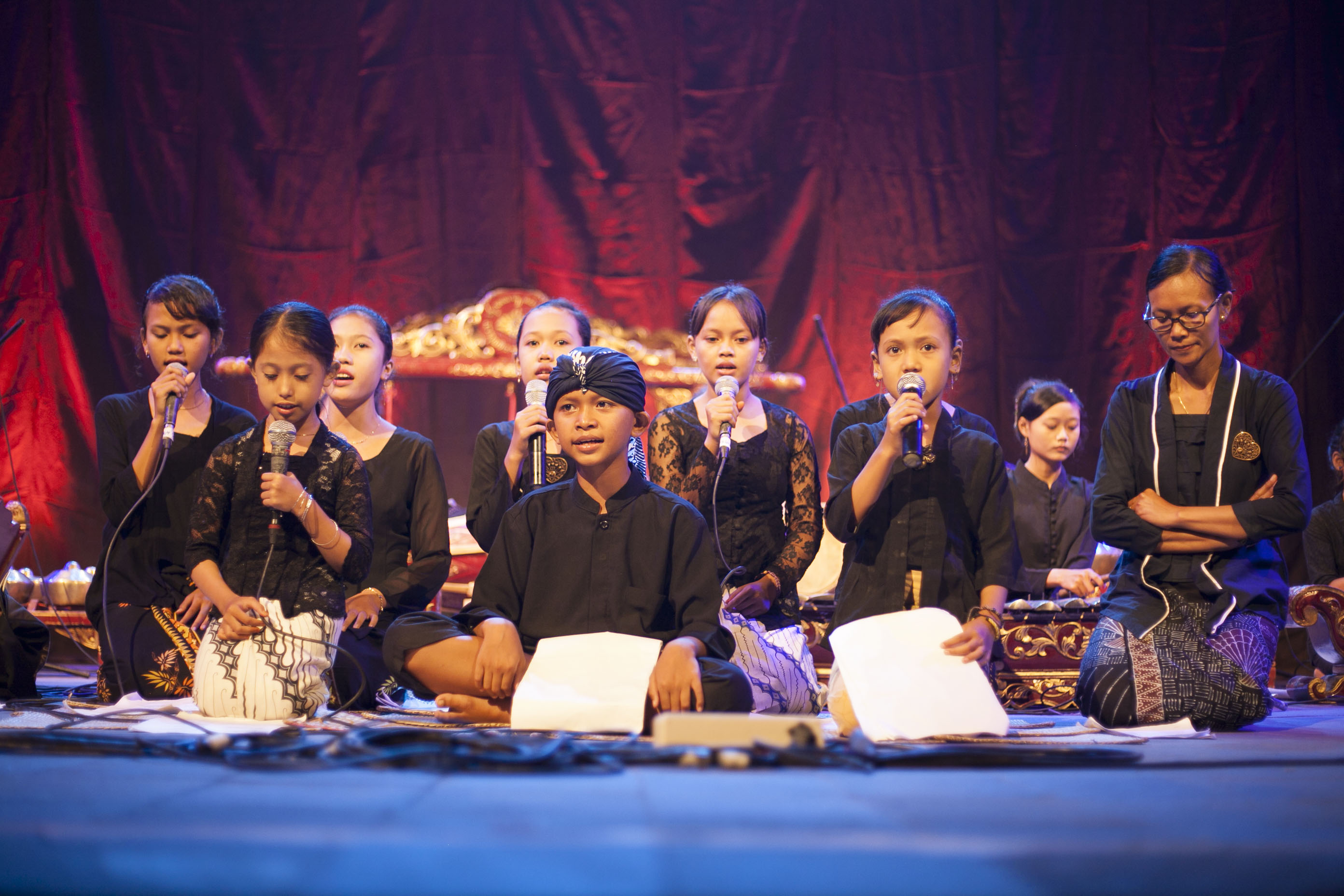 Children from Pasinaon Omah Kendheng village school (Pati, Central Java, Indonesia) sing 'macapat' (Javanese poetry song) along with the sound of a set of gamelan instrument.